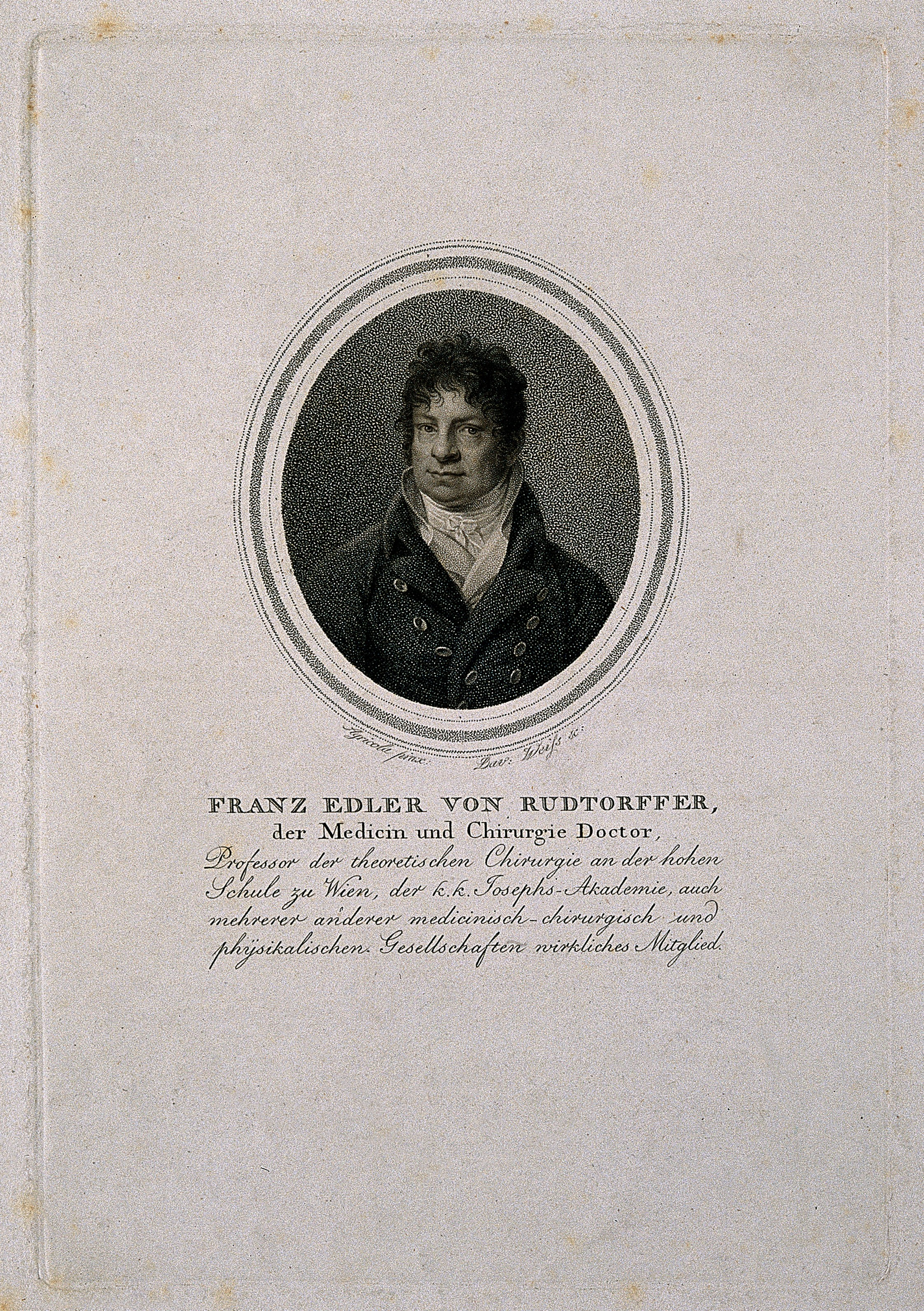 Franz Xaver, Ritter von Rudtorffer. Stipple engraving by D. Weiss after K. J. A. Agricola. Iconographic Collections Keywords: portrait prints; stipple prints; Franz Xaver von Rudtorffer